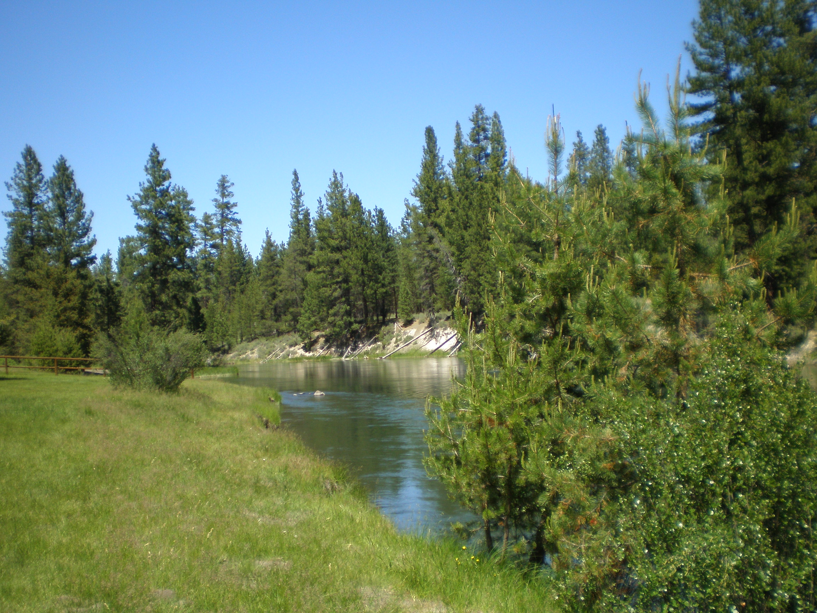 La Pine State Park in Central Oregon in 2011